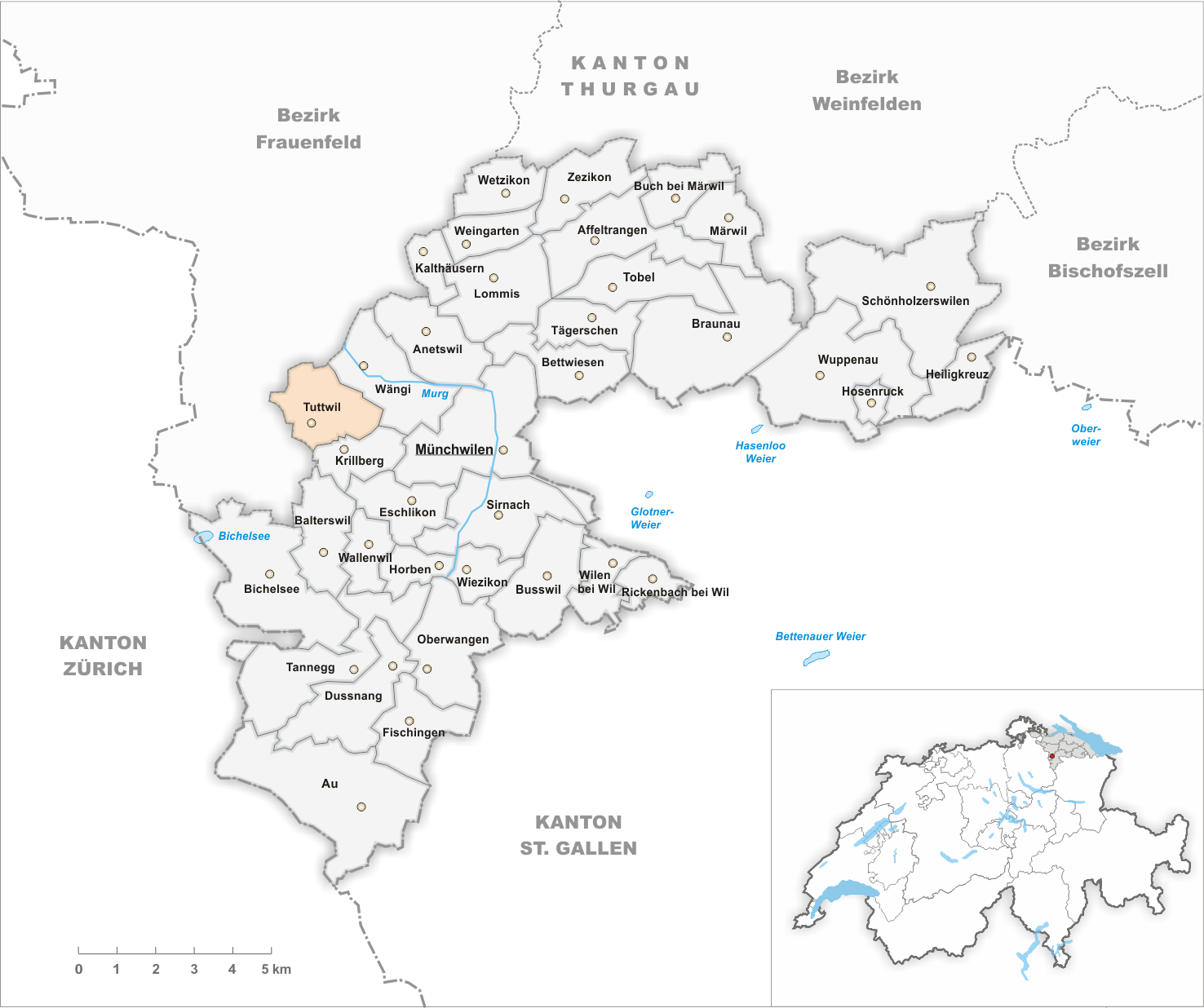 Municipality Tuttwil